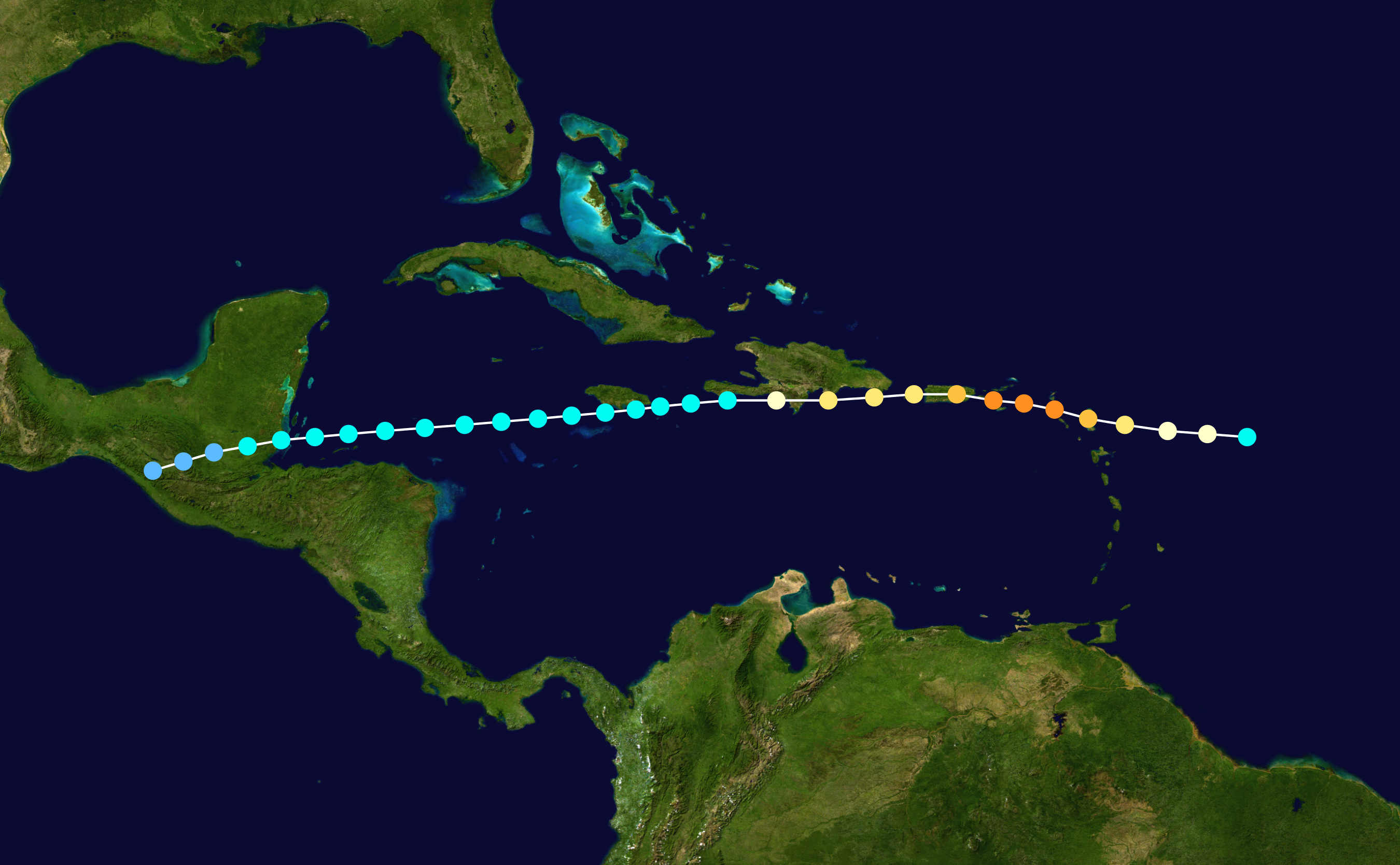 1932 Atlantic hurricane 7 track. Uses the color scheme from the Saffir-Simpson Hurricane Scale.